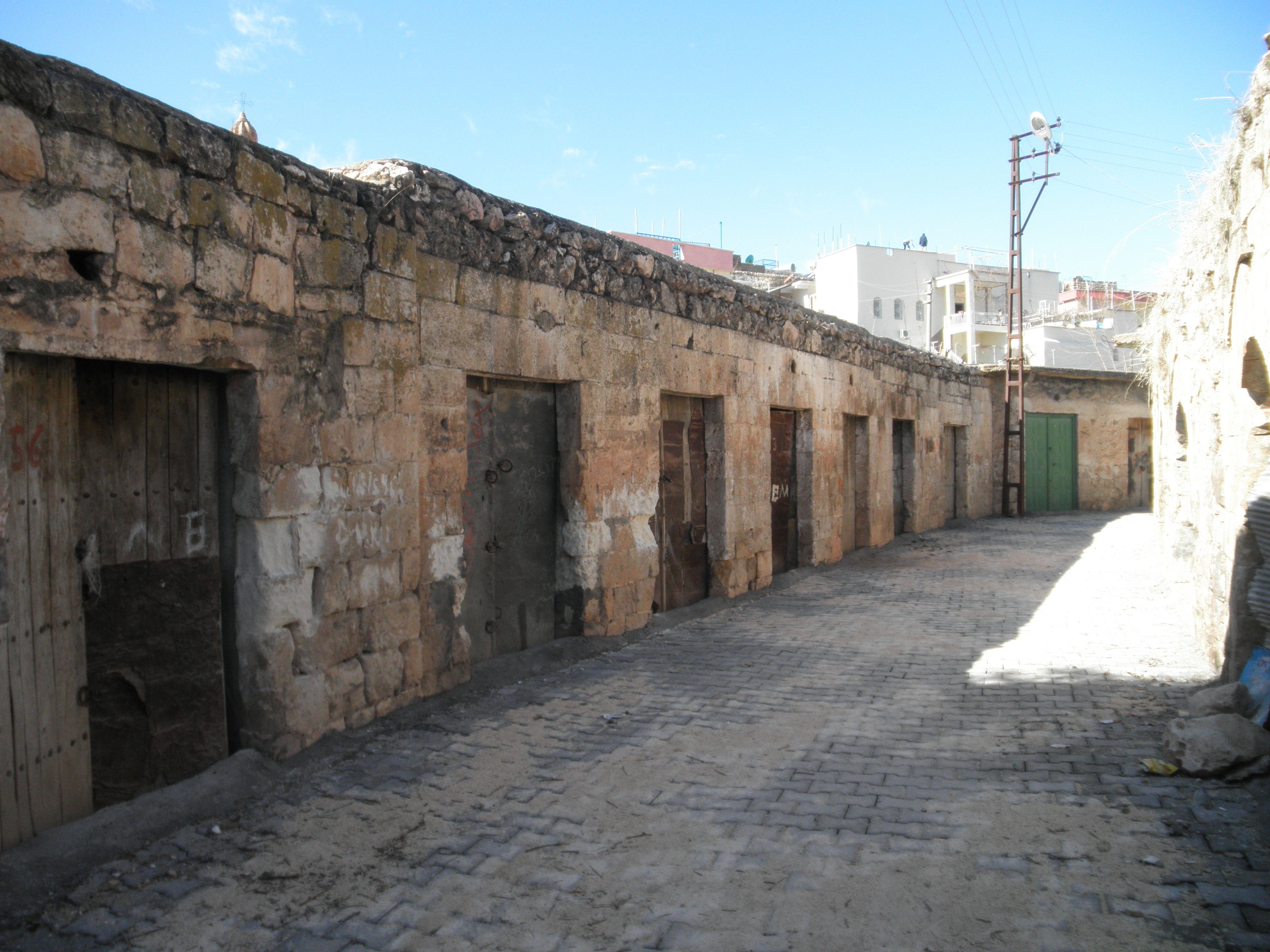 Old downtown of Kerboran. Kurdî: Sûka kevin a Kerboranê.